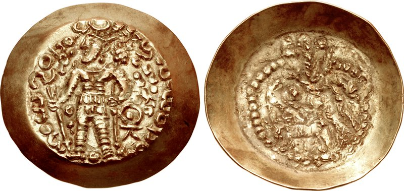 Coin of Peroz I, minted in what it seems to be Balkh, in 467/8, shortly after Peroz I put an end to Kidarite rule in Tukharistan with Hephthalite aid.